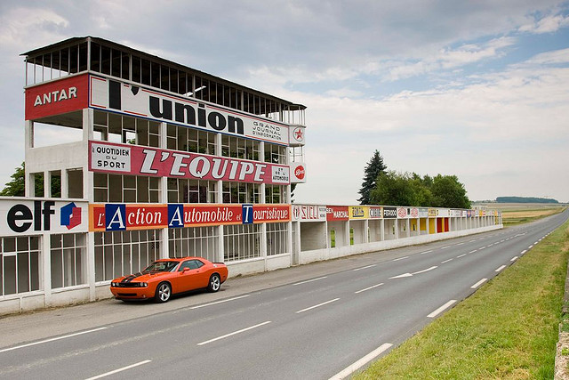 dodge-challenger-srt8-at-reims-track at Pits of Circuit de Reims-Gueux